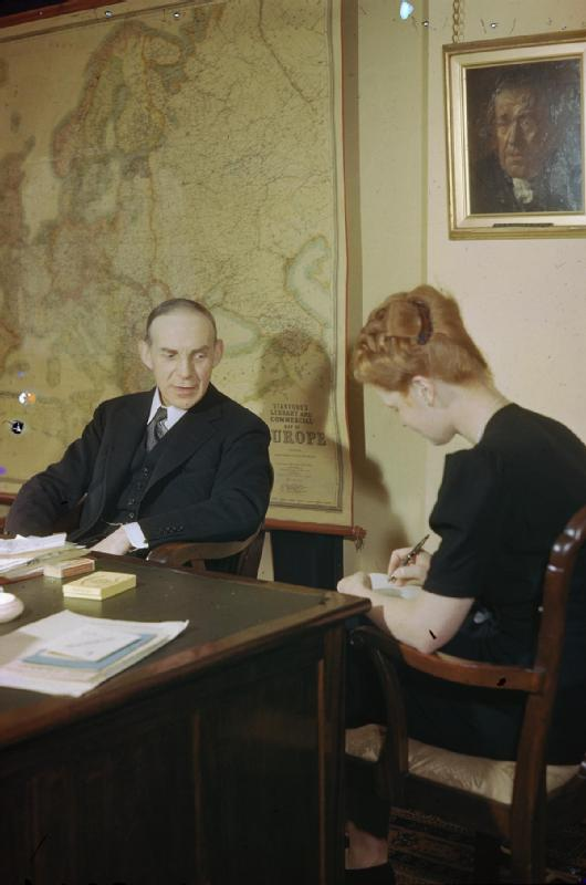 British Political Personalities of the Second World War Roundell Cecil Palmer, 3rd Earl of Selbourne, the Minister of Economic Welfare with his secretary in his office in London.